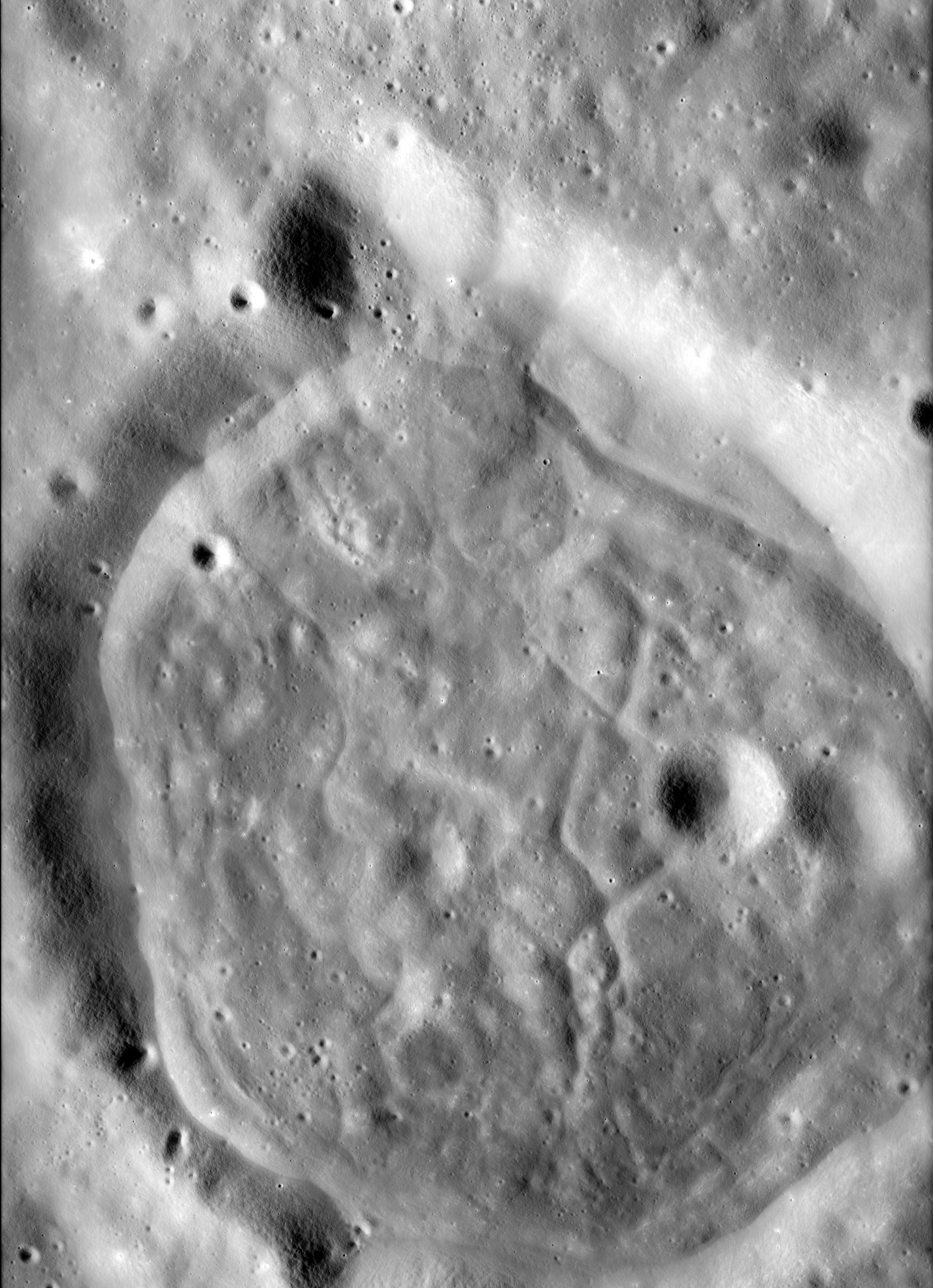 Apollo 17 photo of Zwicky N, an unusual crater that lies within the interior of the larger Zwicky crater. The description of the photography: "A panoramic camera view of an unusual crater on the lunar far side, west of the large crater Aitken. The crater is polygonal in outline, its rim is not raised, and its walls are relatively smooth. The floor of the crater is occupied by a rather dark material with numerous cracks. This pattern has been informally referred to as a turtleback crater floor (El-Baz and Roosa, 1972). It occurs only in a few craters on the lunar surface and is probably caused by the cooling of a molten or partially molten fill within the crater. However, cracking due to tectonic movement (for example, the upward thrust of a central plug) cannot be excluded."—NASA SP-362, Page 221, Figure 236. The crater Zwicky was apparently named at a date following the release of this photograph.